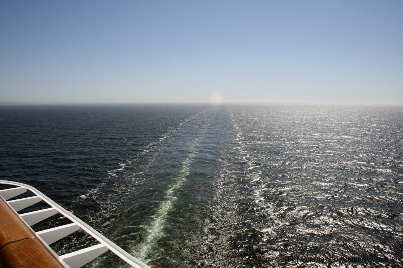 Baltic Sea